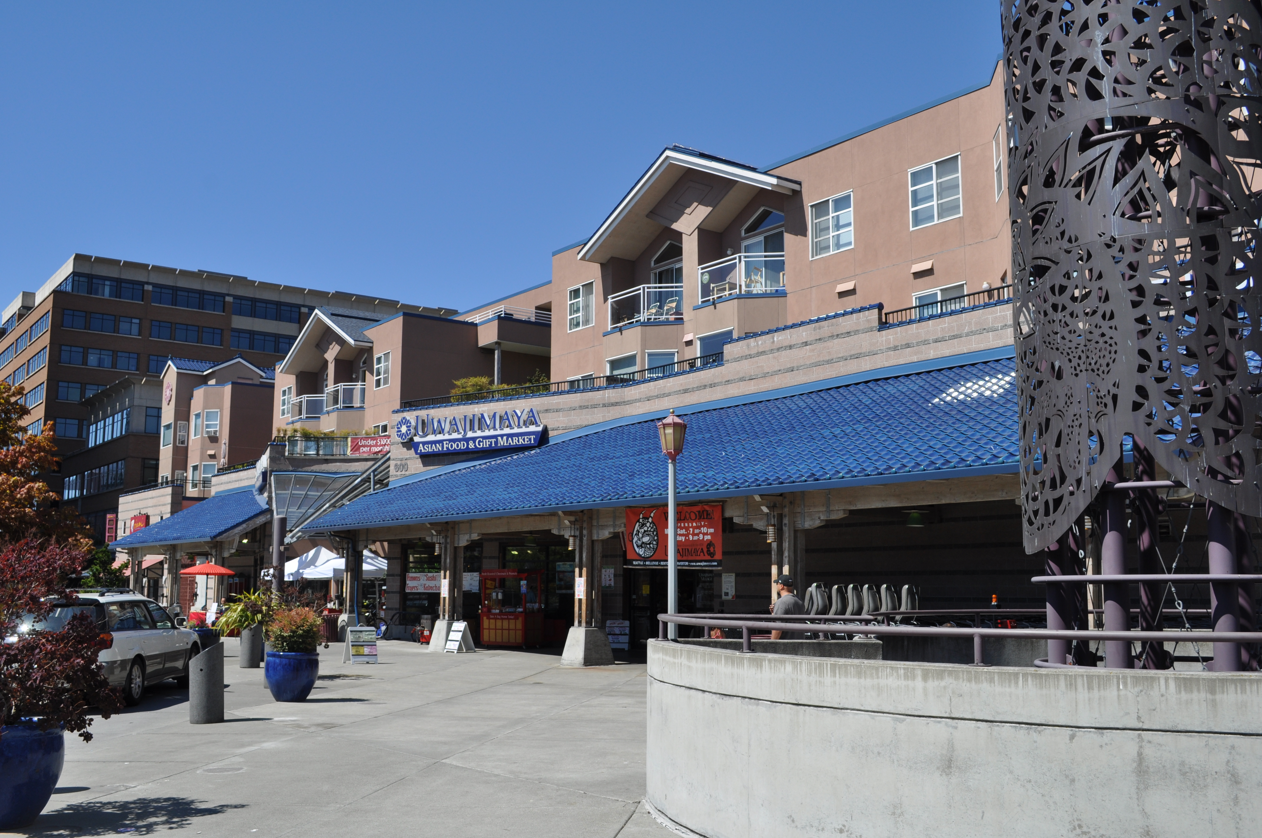 Uwajimaya Village, International District, Seattle, Washington. Uwajimaya supermarket, apartments, many smaller shops